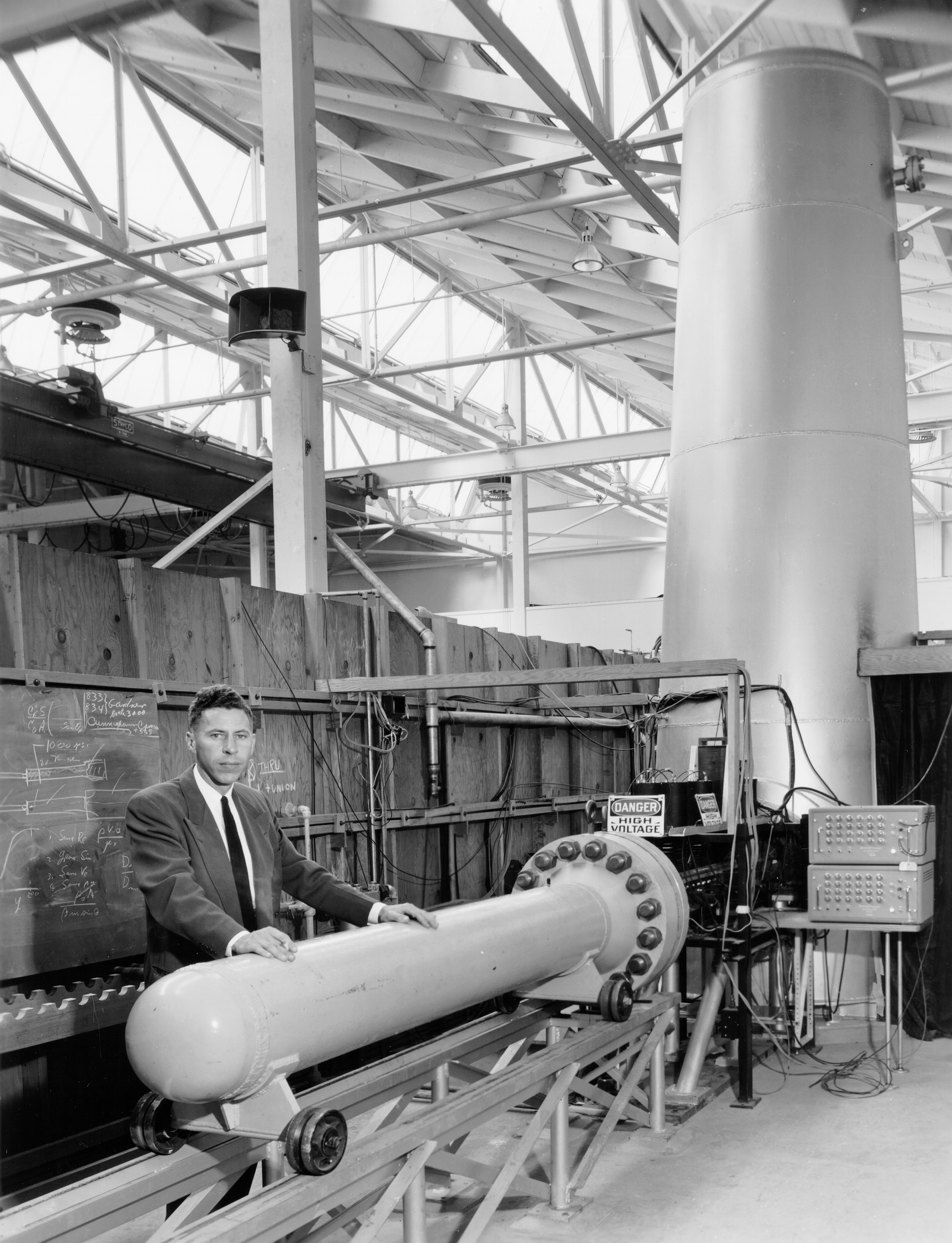 Alfred J. Eggers served as NASA's Assistant Administrator for Policy from January 1968 through March 1971. After that he accepted a position as Assistant Director for Research Applications at the National Science Foundation. Dr. Eggers came to the NACA (National Advisory Committee for Aeronautics) Ames Aeronautical Laboratory in 1944 from the Navy's V-12 college program. In 1954 he was made Division Chief of the Vehicle Environment Division. This Division was comprised of a physics branch, an entry simulation branch, a structural dynamics branch, the 3.5 foot hypersonic wind tunnel branch and the hypervelocity ballistic range branch. In 1958 Dr. Eggers headed up the Manned Satellite Team which was to consider design problems and propose a practical system for a satellite while recommending a suitable research program. This ultimately lead to Ames developing and managing the highly successful Pioneer program. Dr. Eggers specialized in hypersonic and spaceflight research including the development of new wind tunnel and ballistic range facilities. In May of 1964 Dr. Eggers was appointed Deputy Associate Administrator for Advanced Research and Technology.